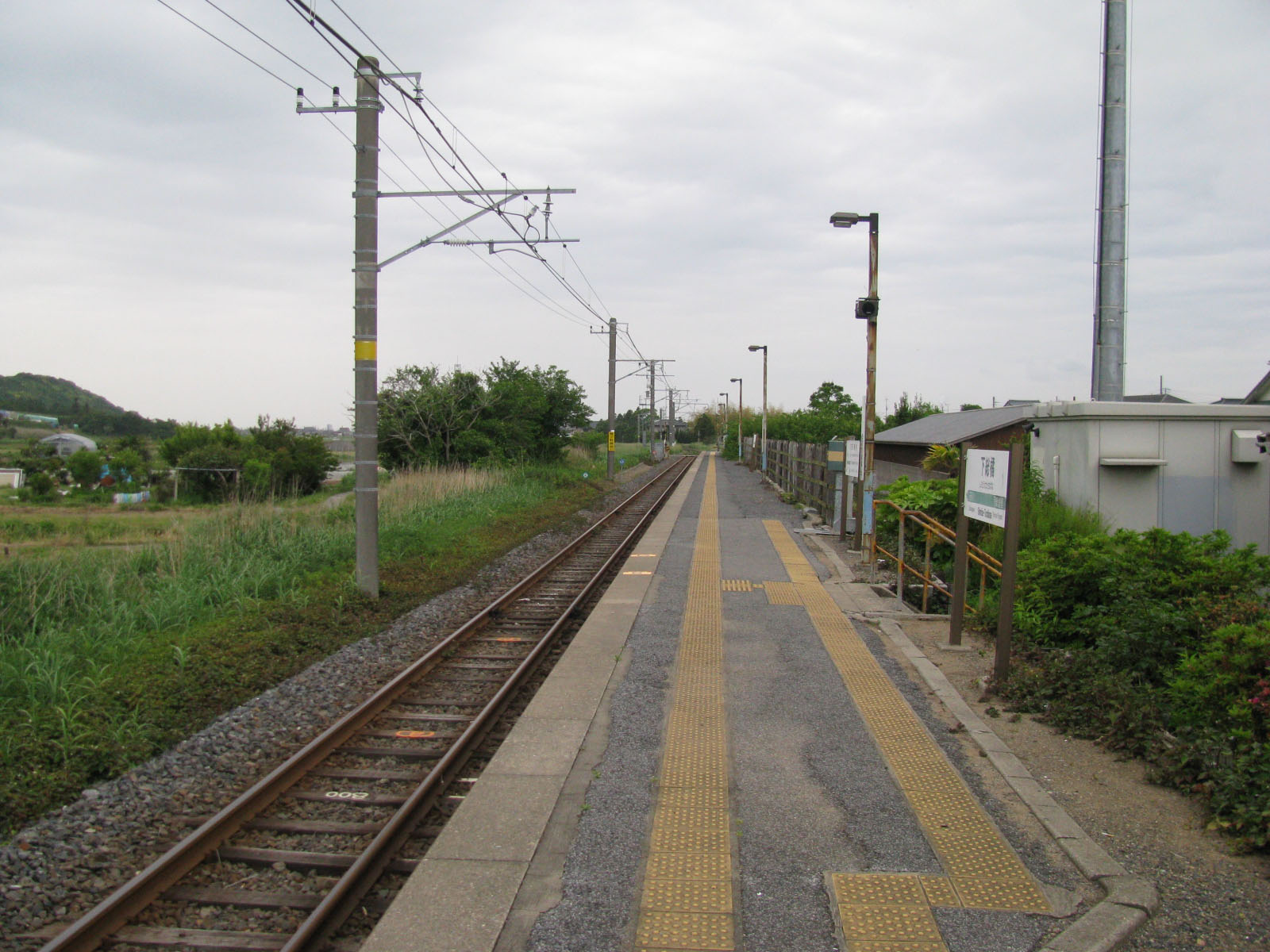 Shimosa-Tachibana Station